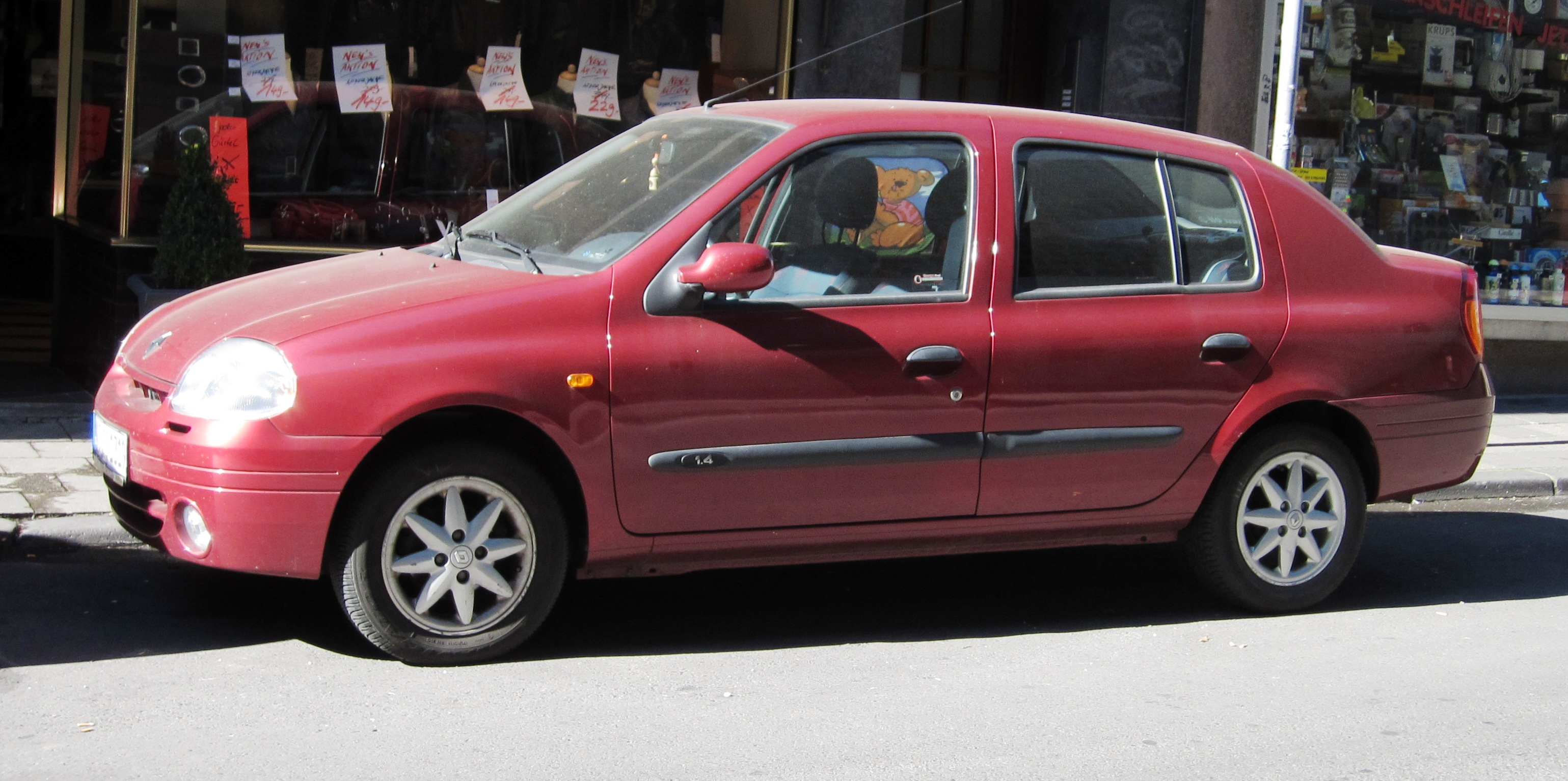 Renault Clio Symbol 1.4. The car had different names in different markets, but this is the name by which it was known in Turkey. Not a standard model in France.